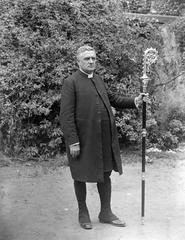 This is Dr. Robert Miller (1866-1931), Bishop of Cashel, Emly, Waterford and Lismore. Date: 22 June 1925 NLI Ref.: P_WP_3304